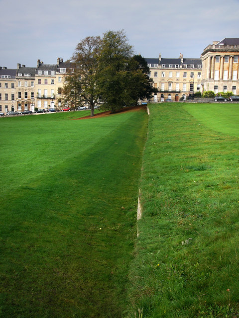 Ha-ha south of Royal Crescent Bath